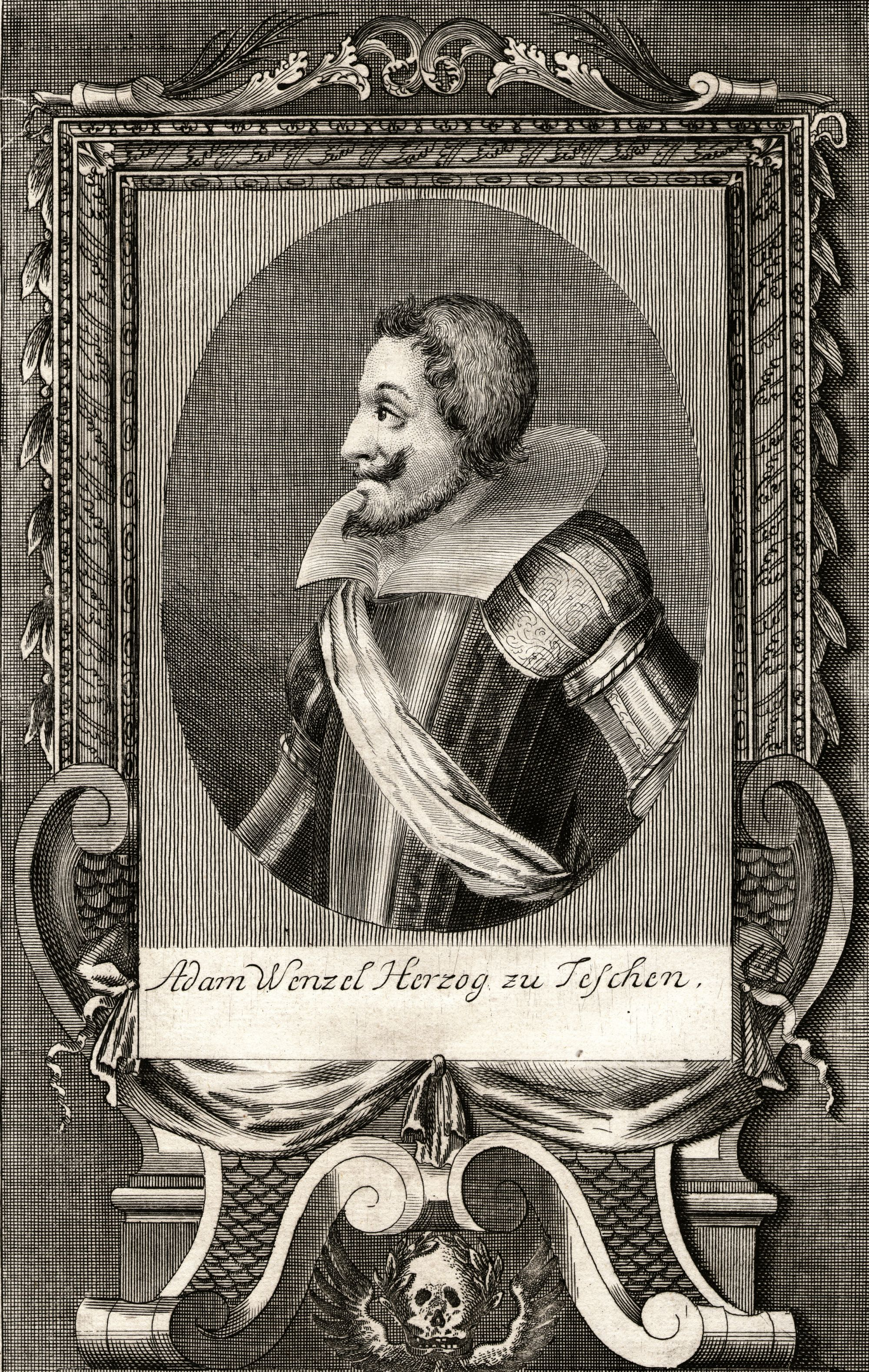 Adam Wenceslaus - Duke of Cieszyn